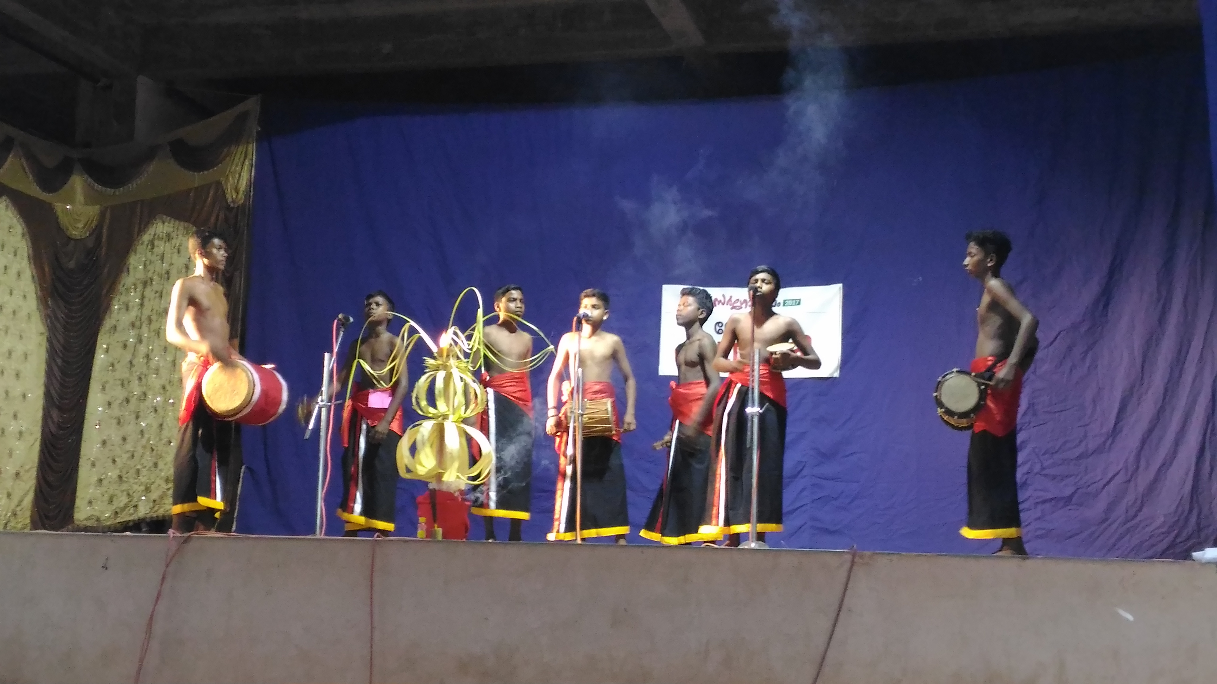 Kottupattu is a tribal dance performed by the Tribes living in Kollam District of Kerala